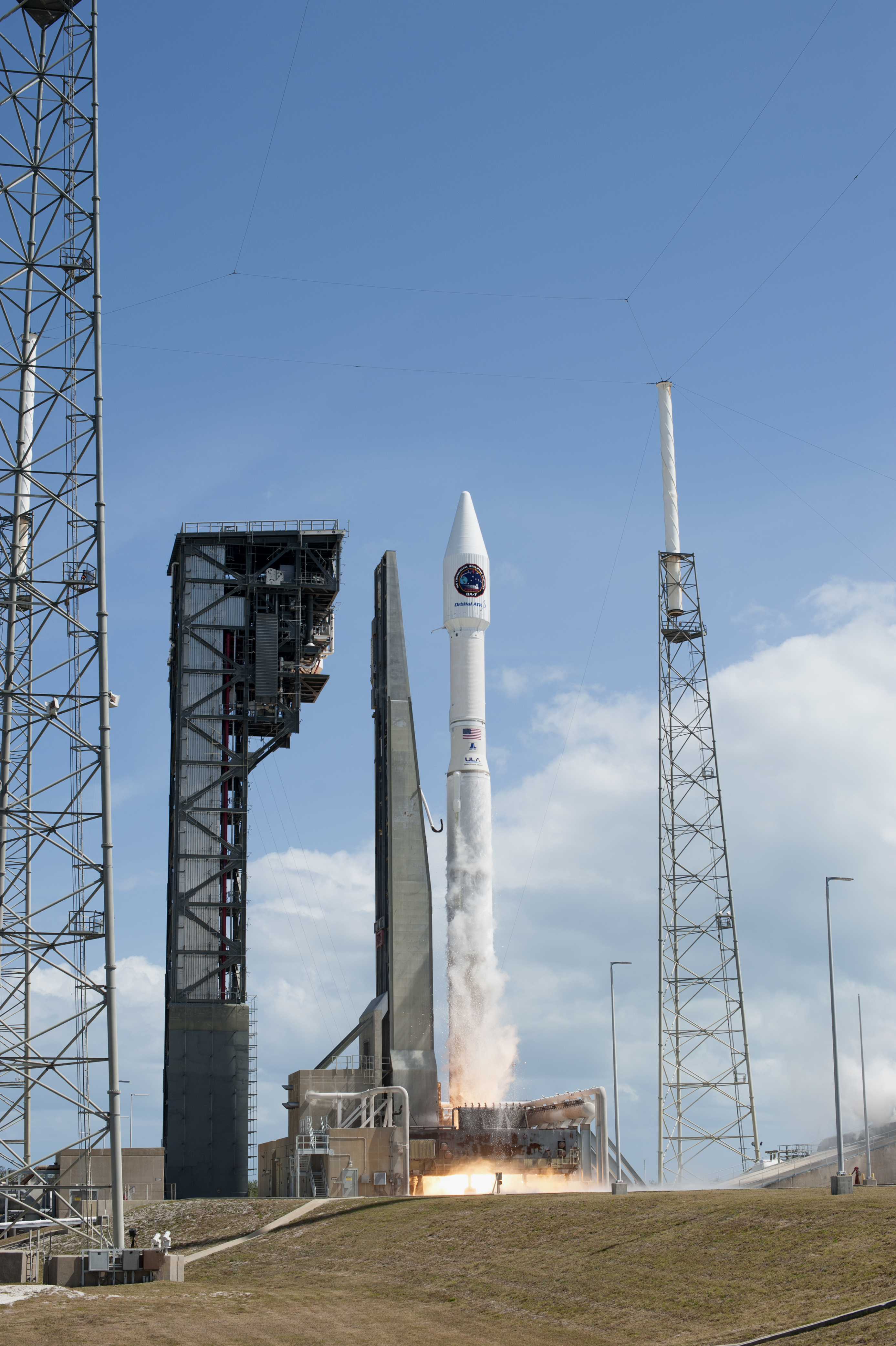 The Orbital ATK Cygnus pressurized cargo module is carried atop the United Launch Alliance Atlas V rocket from Space Launch Complex 41 at Cape Canaveral Air Force Station in Florida. Orbital ATK's seventh resupply services mission, CRS-7, will deliver 7,600 pounds of supplies, equipment and scientific research materials to the International Space Station. Liftoff was at 11:11 a.m. EDT.